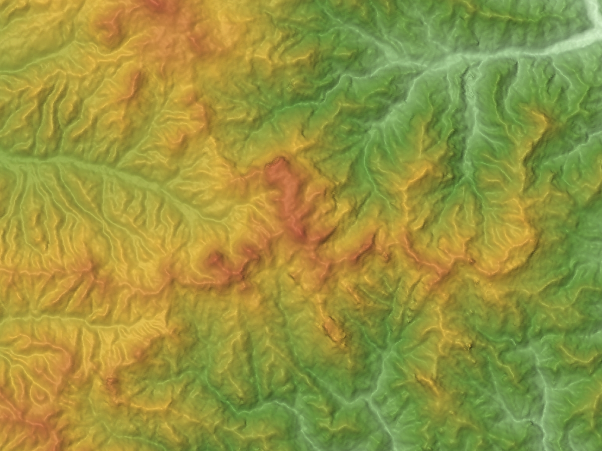 Around Mount Arafune in the border between Gunma and Nagano Prefectures, Honshu, Japan.